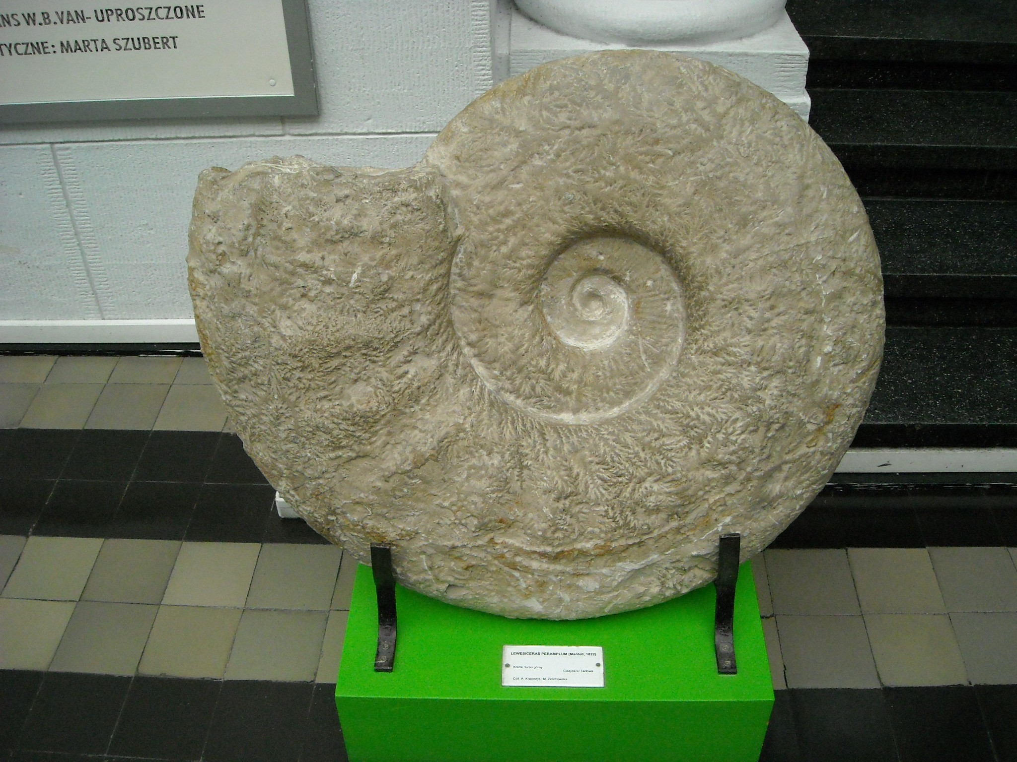 Fossil of Lewesiceras peramplum - a pachydiscid ammonite. This specimen comes from Upper Turonian of Poland.